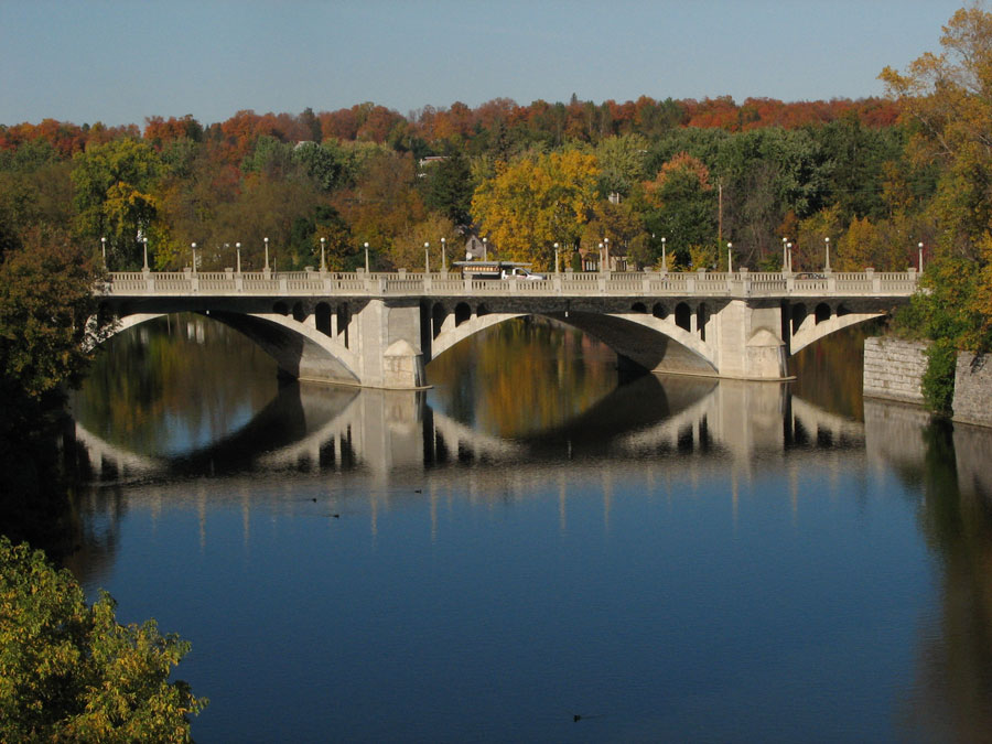 My own pictures